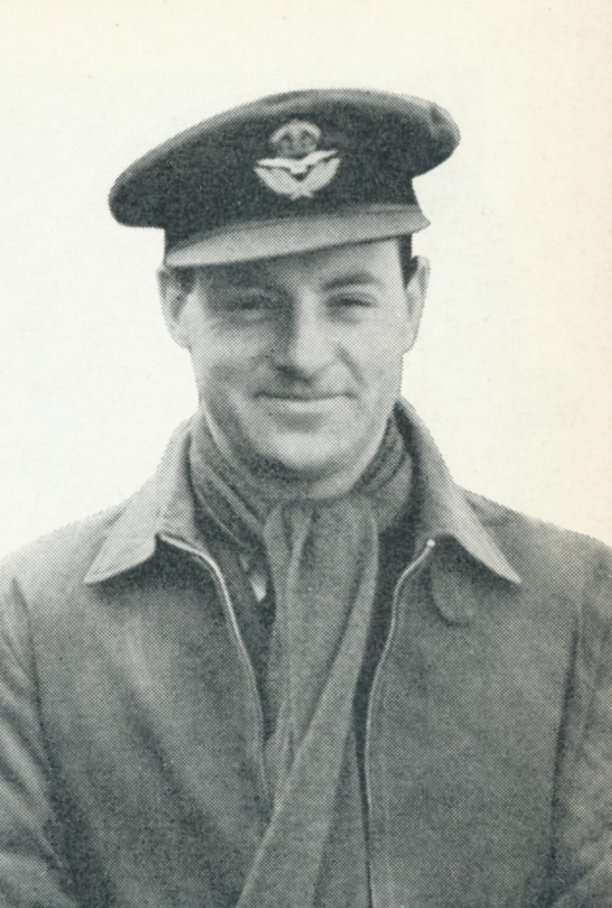 Whitney Straight (1912-1979) served with the Royal Air Force from 1939 to 1945.